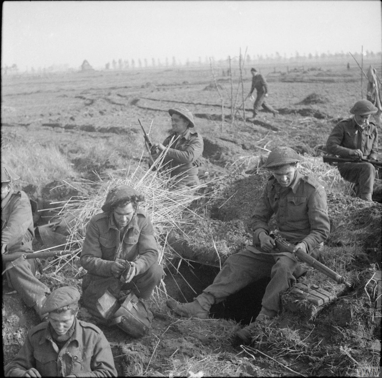 The British Army in North-west Europe 1944-45 Men of the 4th Welch Regiment clean their weapons outside Hertogenbosch, 25 October 1944.